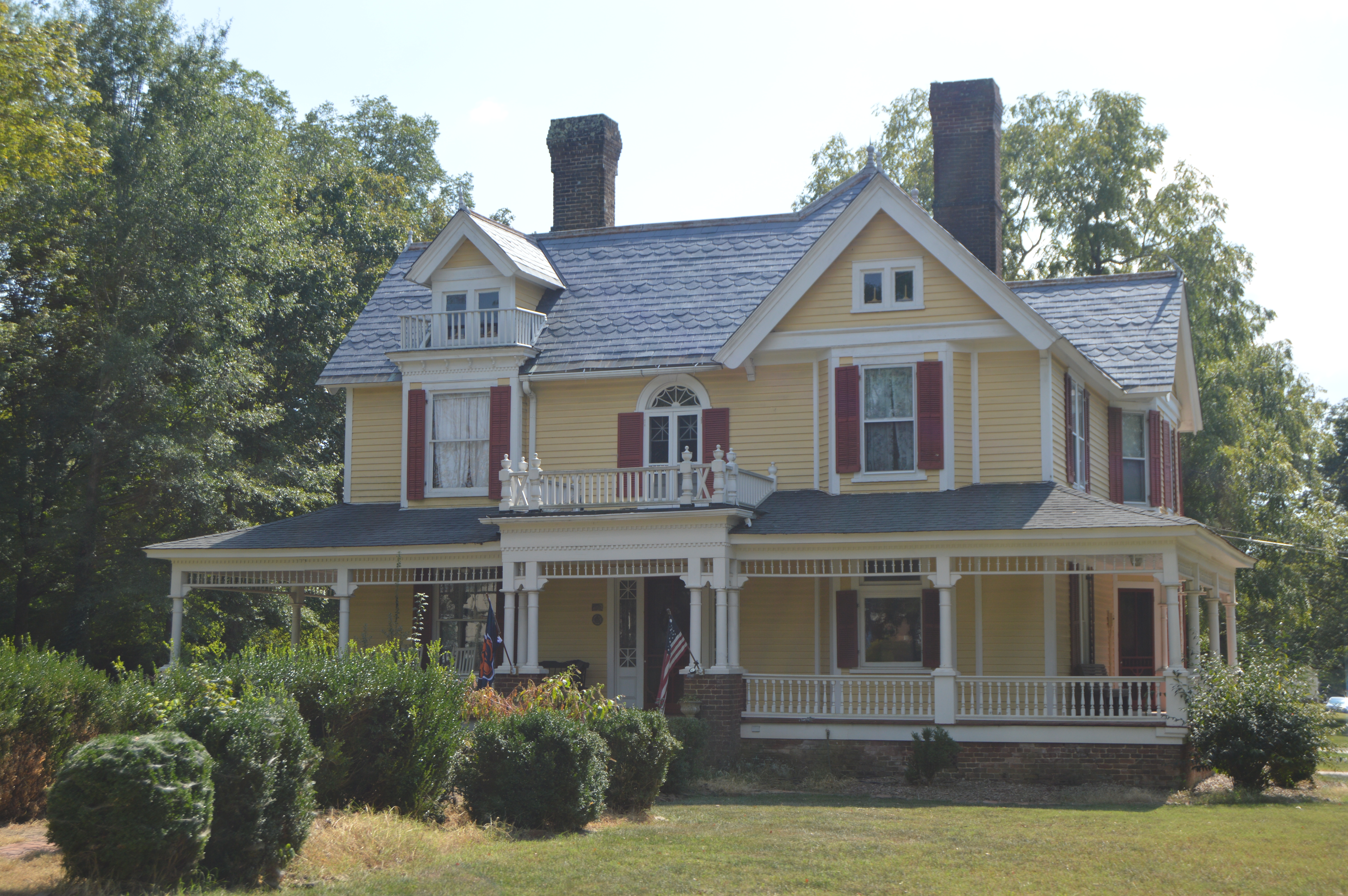 Front of the Francis Marion Smith House, located at 204 Railroad Avenue in Gibsonville, North Carolina, United States. Built in 1898, it is listed on the National Register of Historic Places.